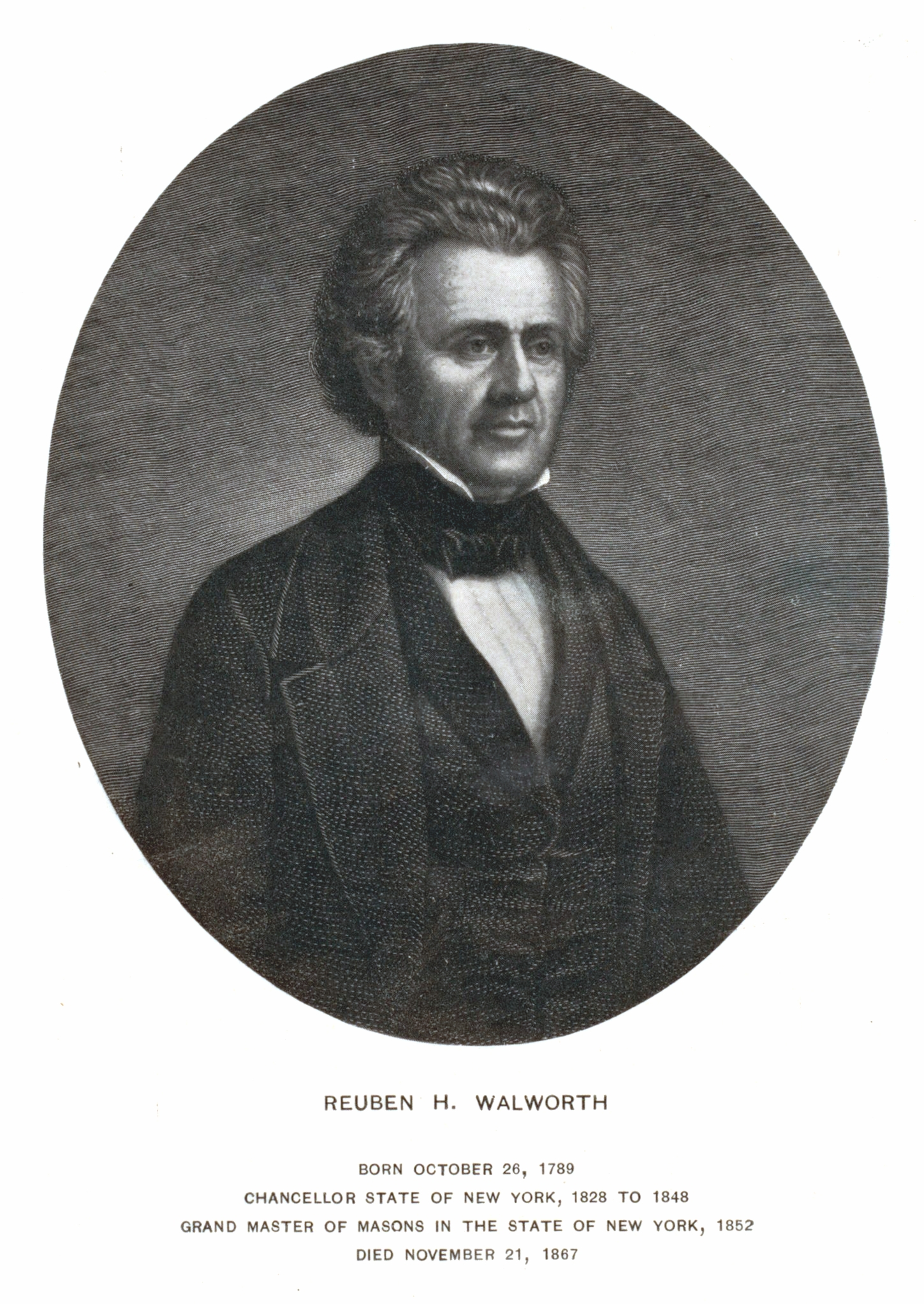 Chancellor Walworth Lodge, No. 271